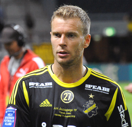 Per Karlsson after the 2013 match AIK-Åtvidaberg